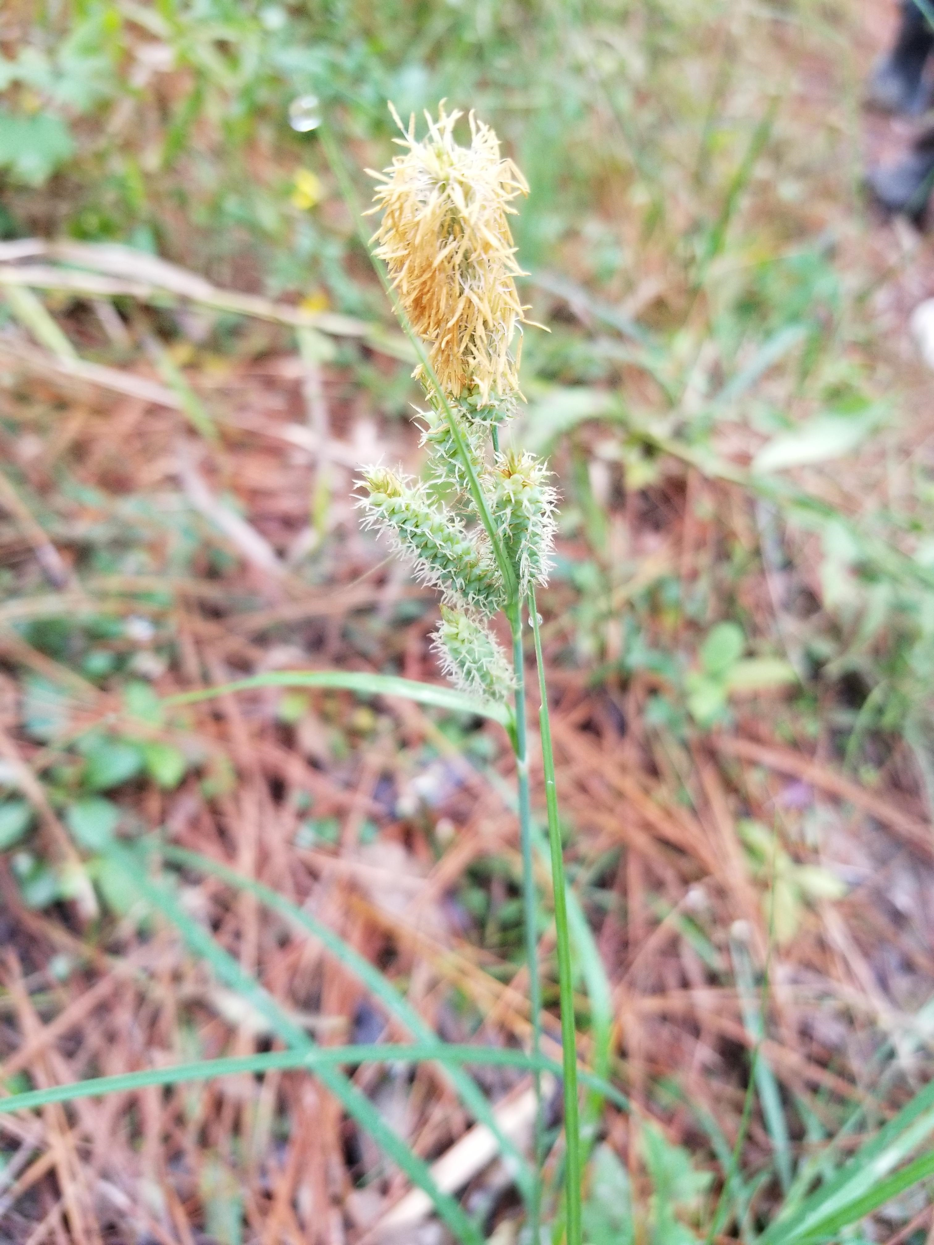 This is an image of Carex glaucescens in its natural habitat.